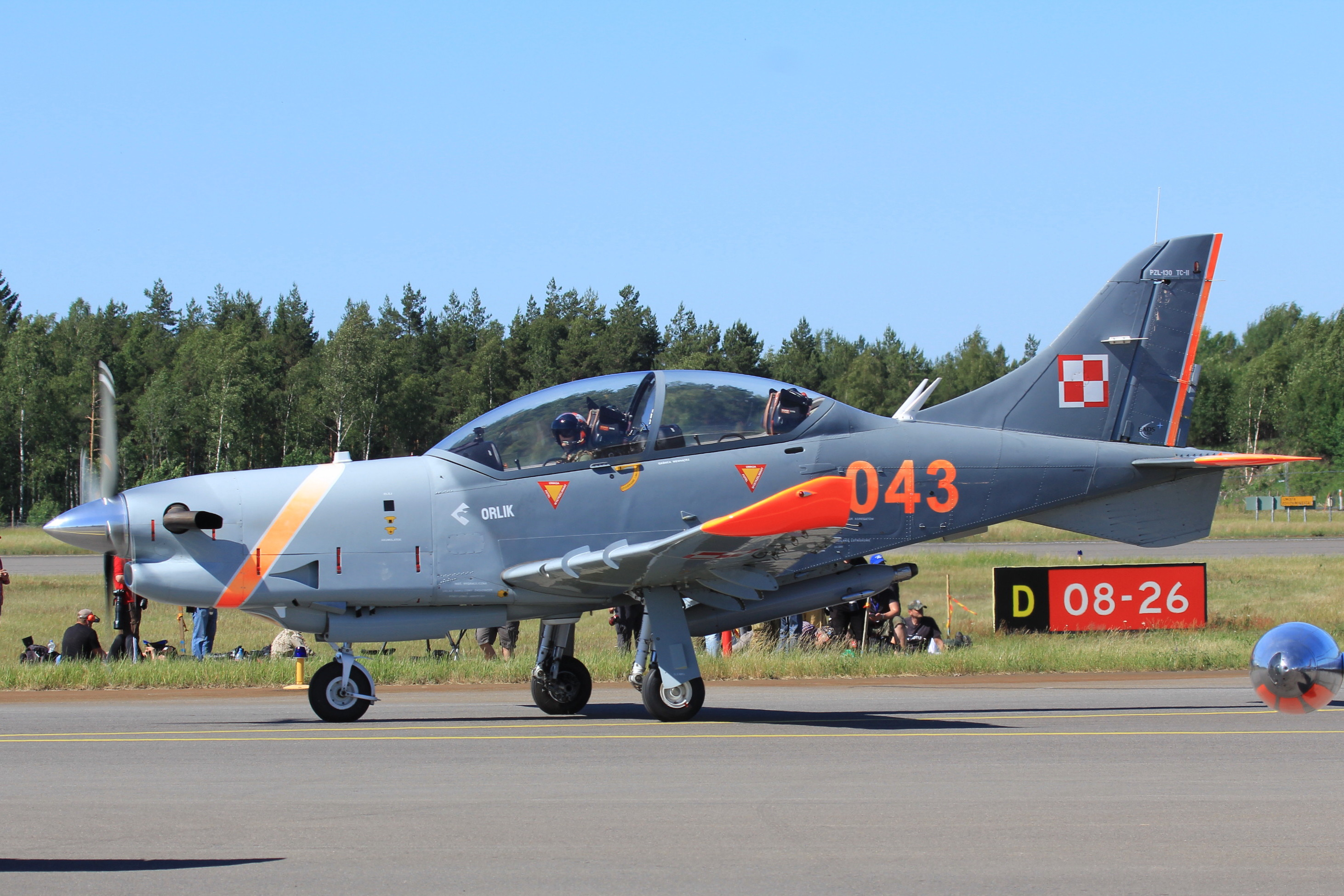 Polish Air Force aerobatic team Orlik, performing June 16th 2019 at Turku International Airshow, Turku Airport, Finland. - After performance.